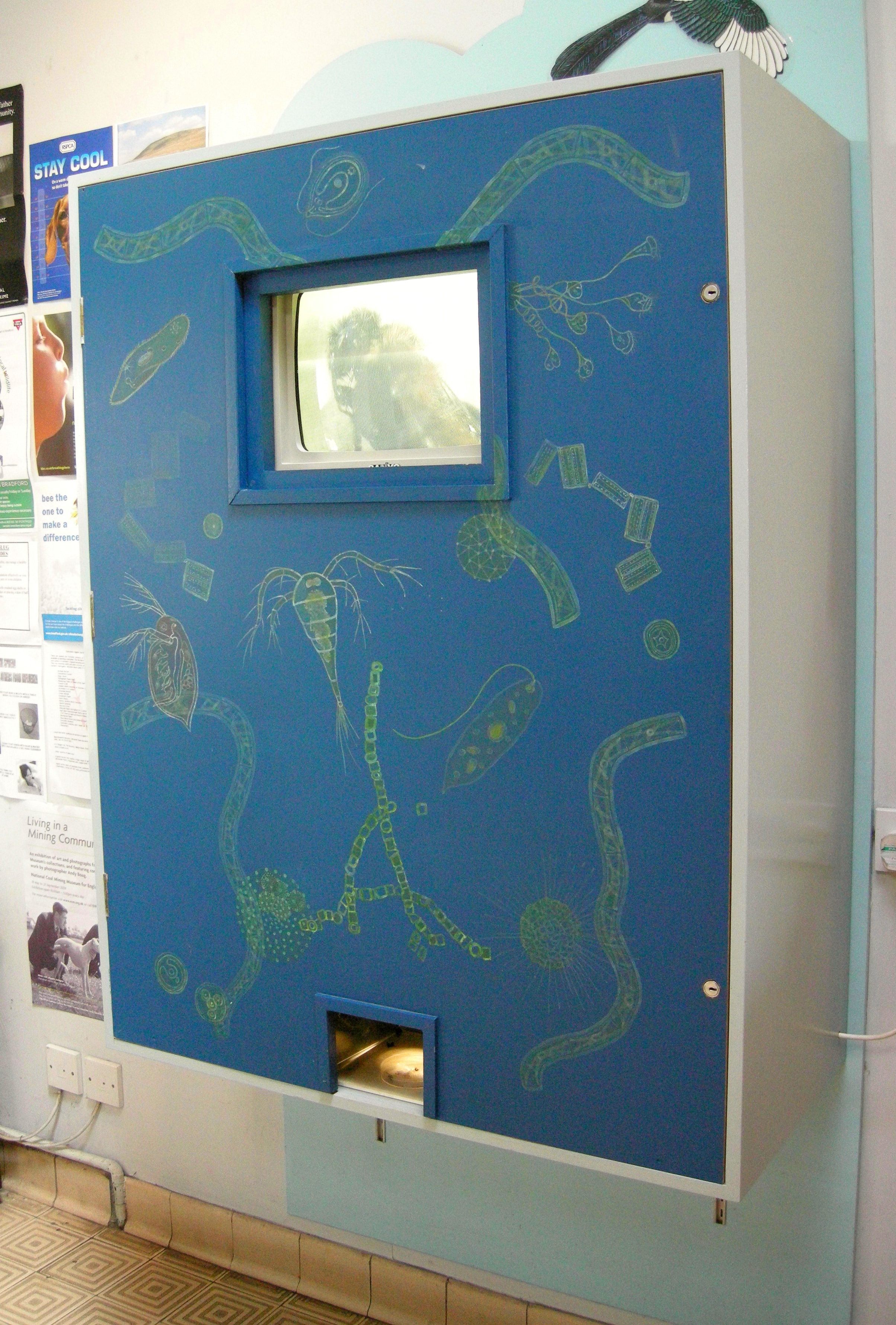 Large interactive video microscope at Bracken Hall Countryside Centre and Museum, Baildon, West Yorkshire, England.